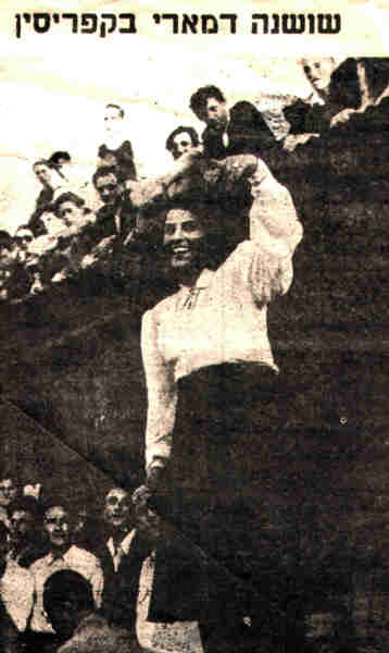 The Singer Shoshana Damari performance at the illegal immigrants camps in Cyprus